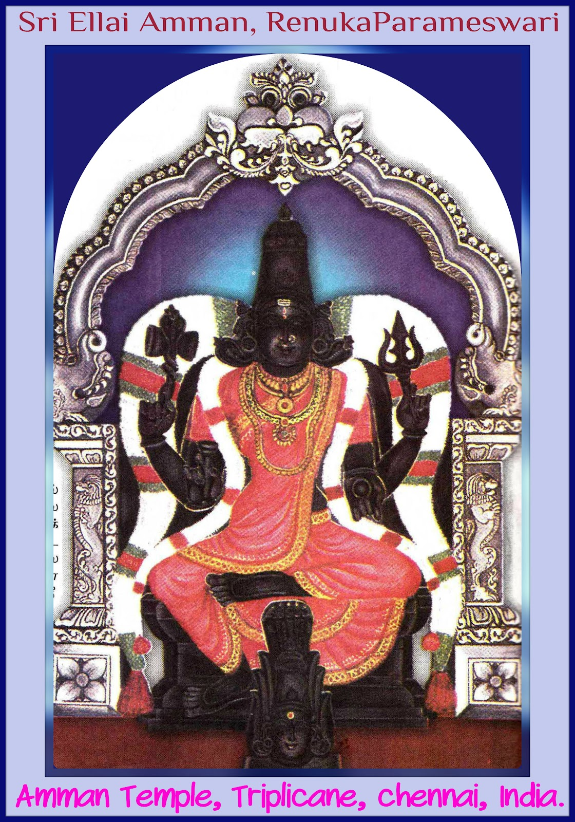 Artwork of Sri Ellai Amman, Renukaparameswari, Amman Temple, Triplicane, Chennai, India.jpg